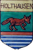 Coat of arms of Dortmund-Holthausen, Germany